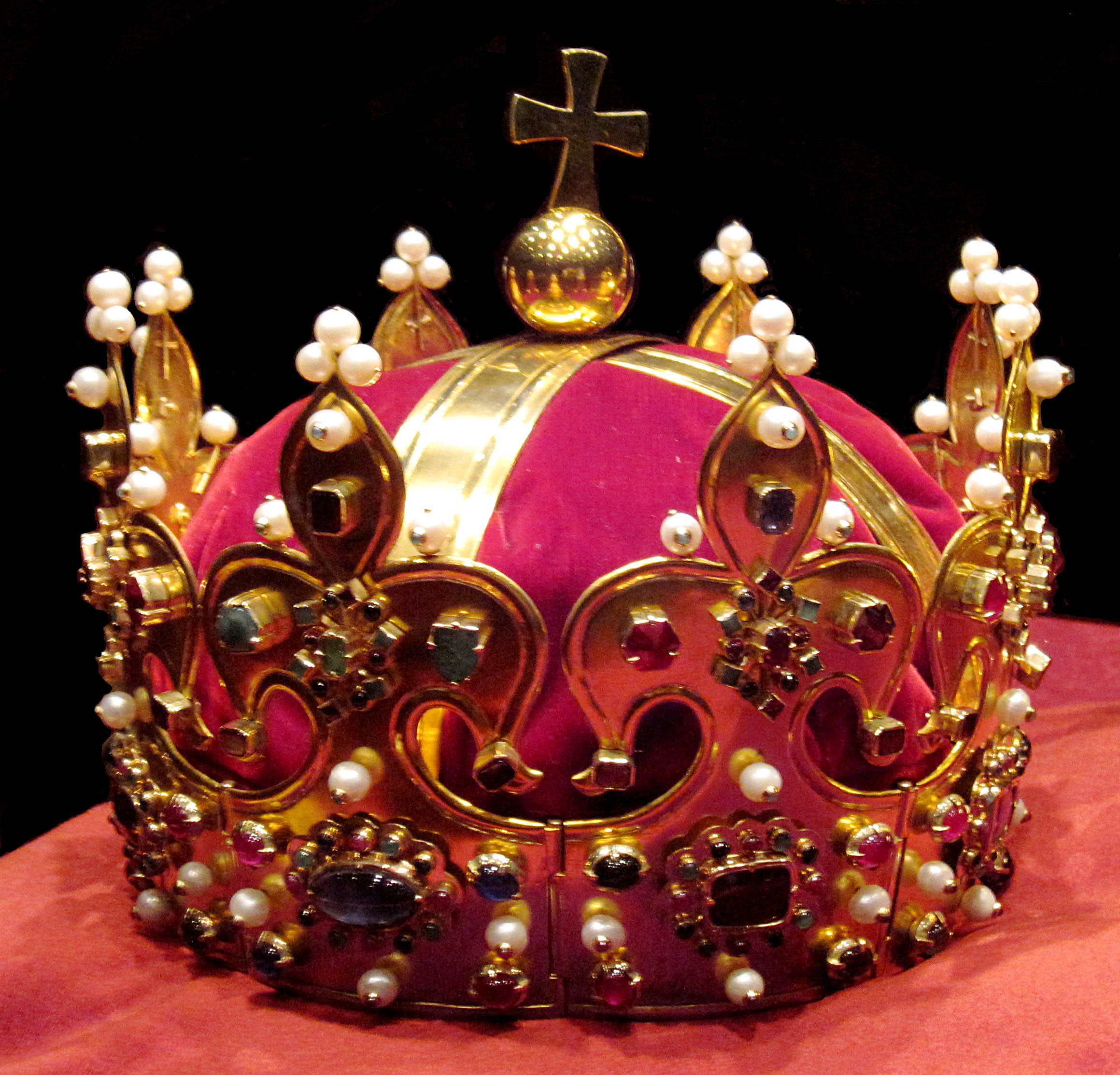 Polish crown jewels, consisting of the crown of Bolesław I the Brave, and the orb and sceptre used by Stanislaus II August of Poland. Copies were made in 2001-2003.